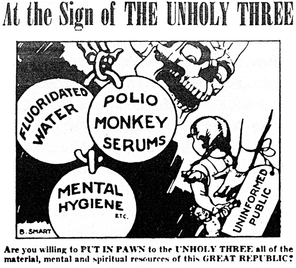 "At the Sign of the UNHOLY THREE", a flier issued in the 1950s–60s to promote hygiene as an anti-communist goal